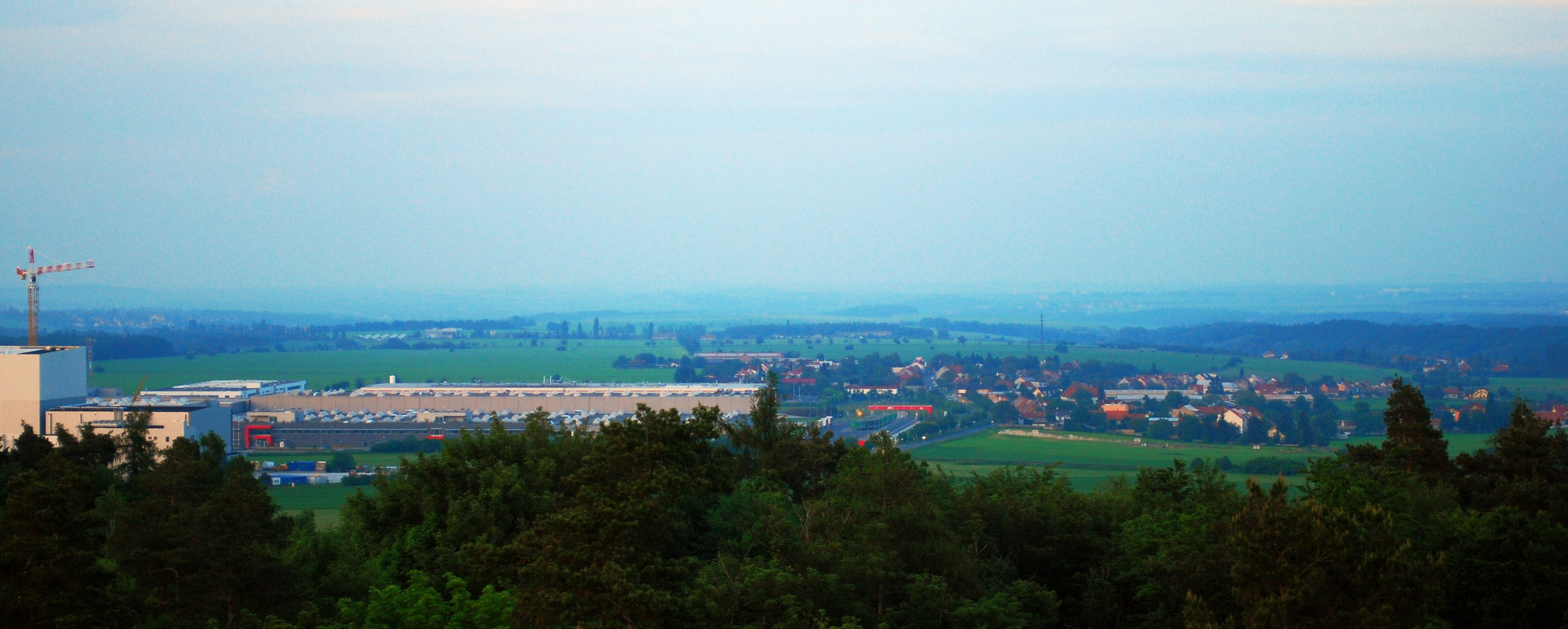 Velké Přítočno as seen from Kožova hora